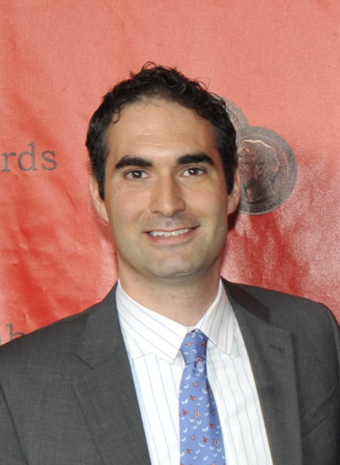 PHOTO CREDIT: ANDERS KRUSBERG / PEABODY AWARDS Connor Schell. Bill Simmons and John Dahl 70th Annual Peabody Awards Luncheon Waldorf=Astoria Hotel May 23, 2011